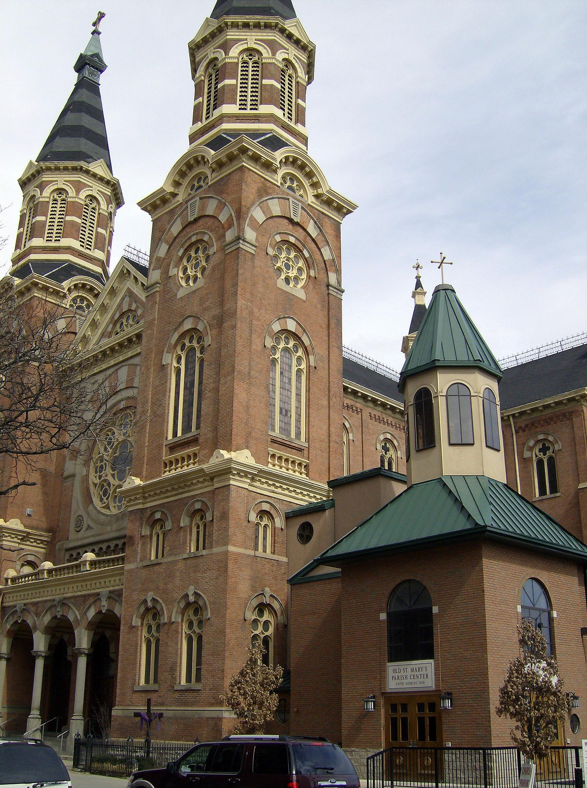 StMarys Roman Catholic in Greektown, Detroit